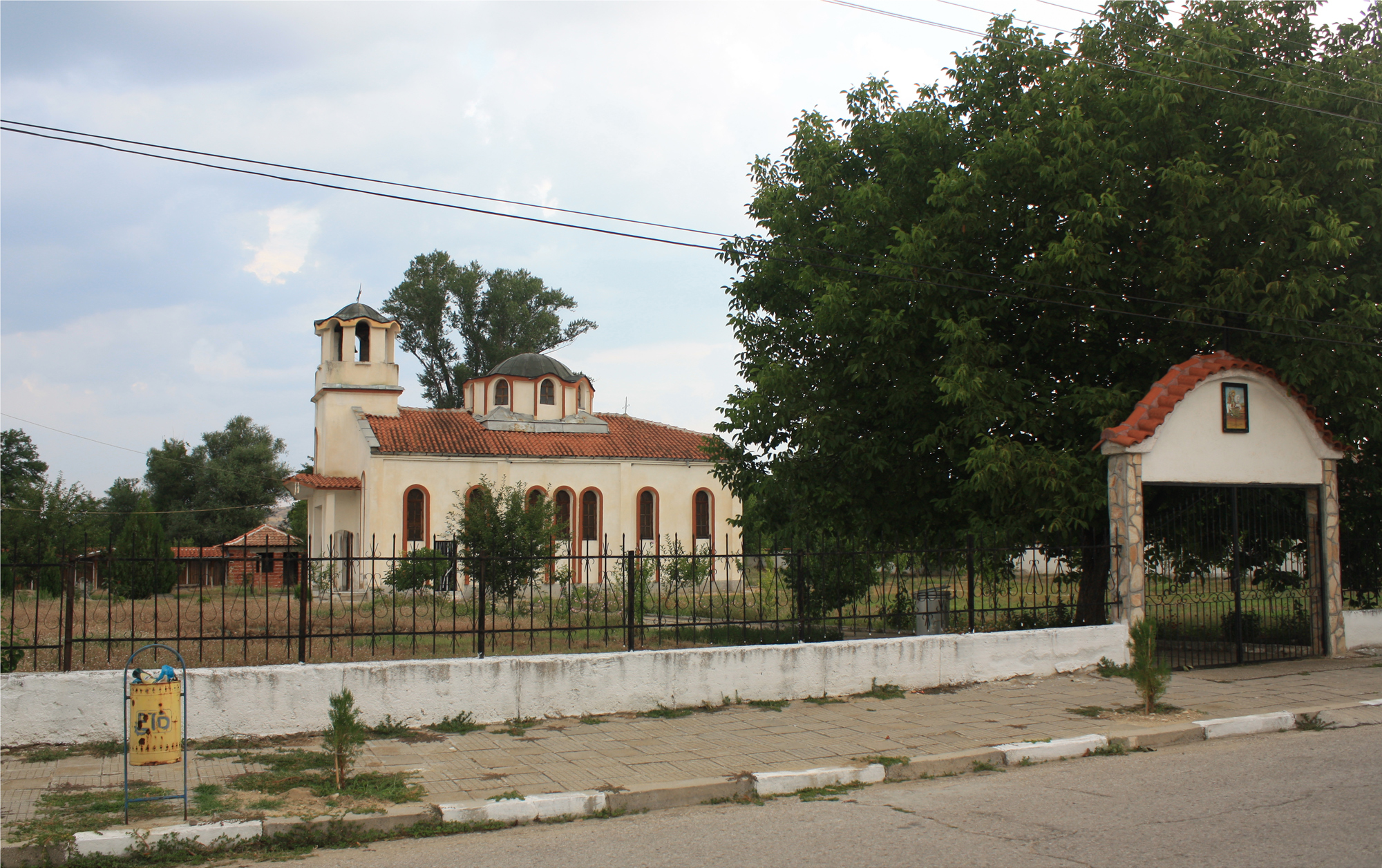 The church Saint George Victorious in Chuchuligovo, Bulgaria